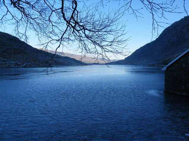 Llyn Ogwen